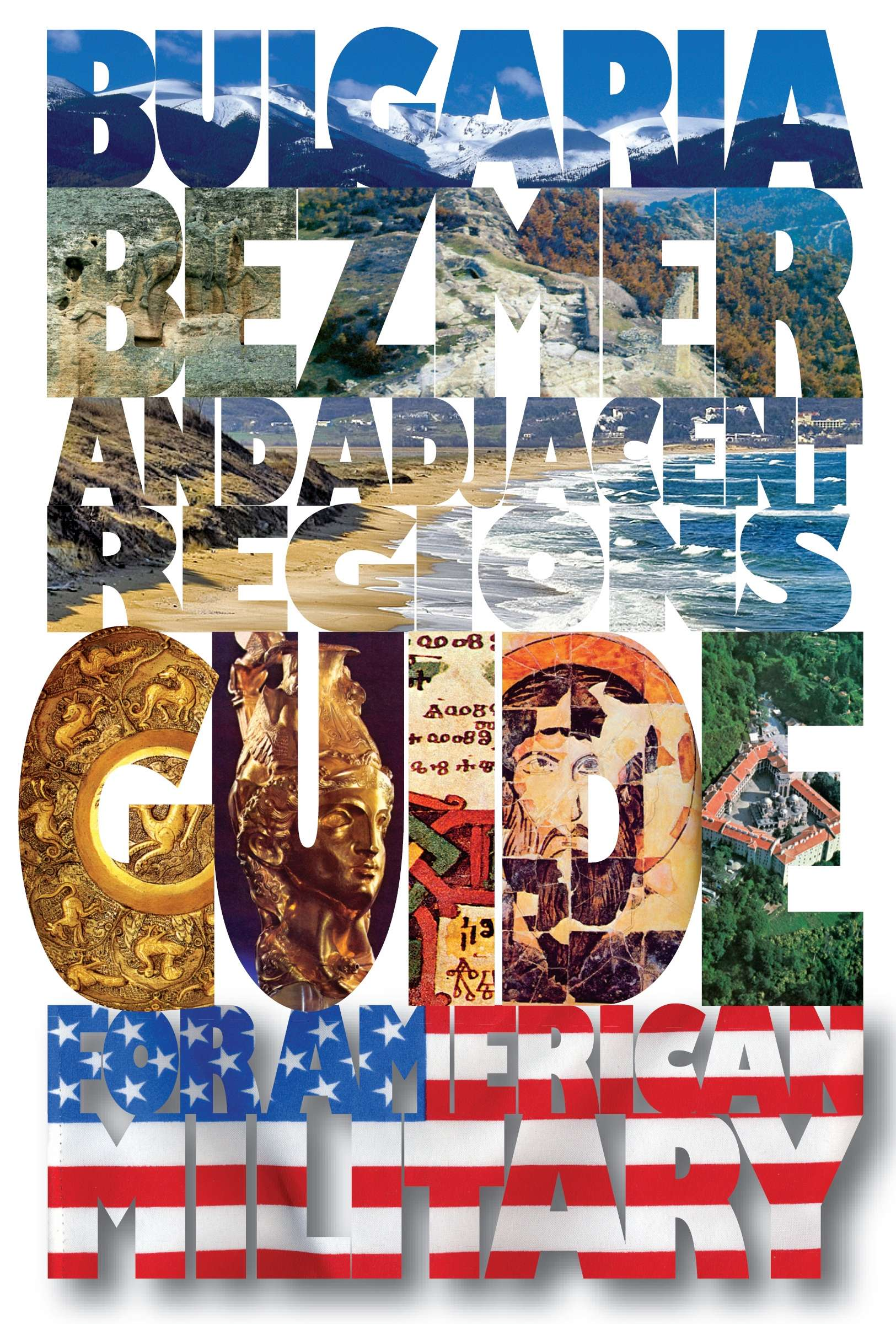 Front cover of the publication Bulgaria: Bezmer and adjacent regions — Guide for American military, Multiprint Ltd., Sofia, 2007, © The Atlantic Club of Bulgaria, ISBN 978-954-90437-8-5